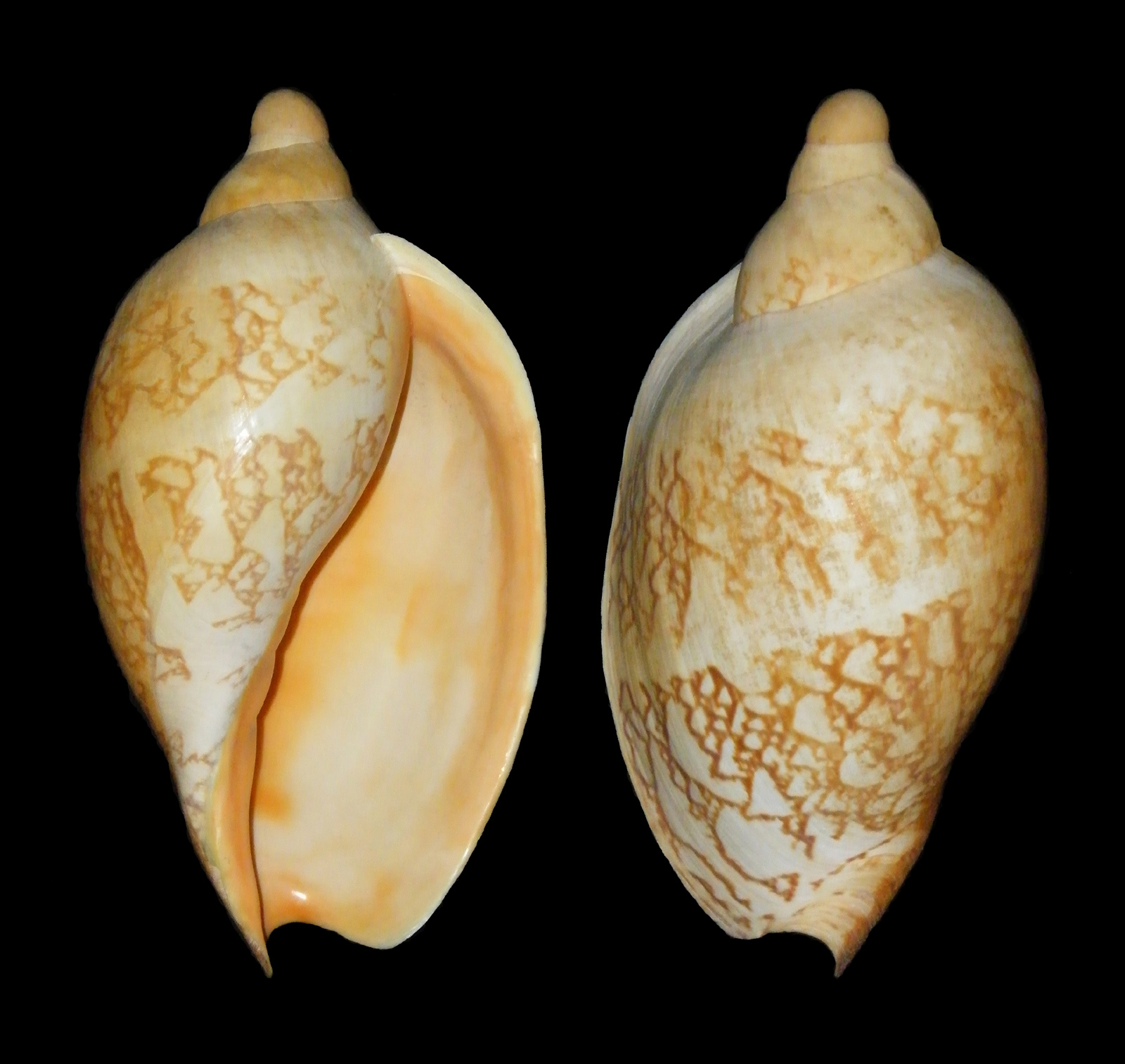 Livonia mammilla Sowerby, 1844, New South Wales Australia, in fish nets.